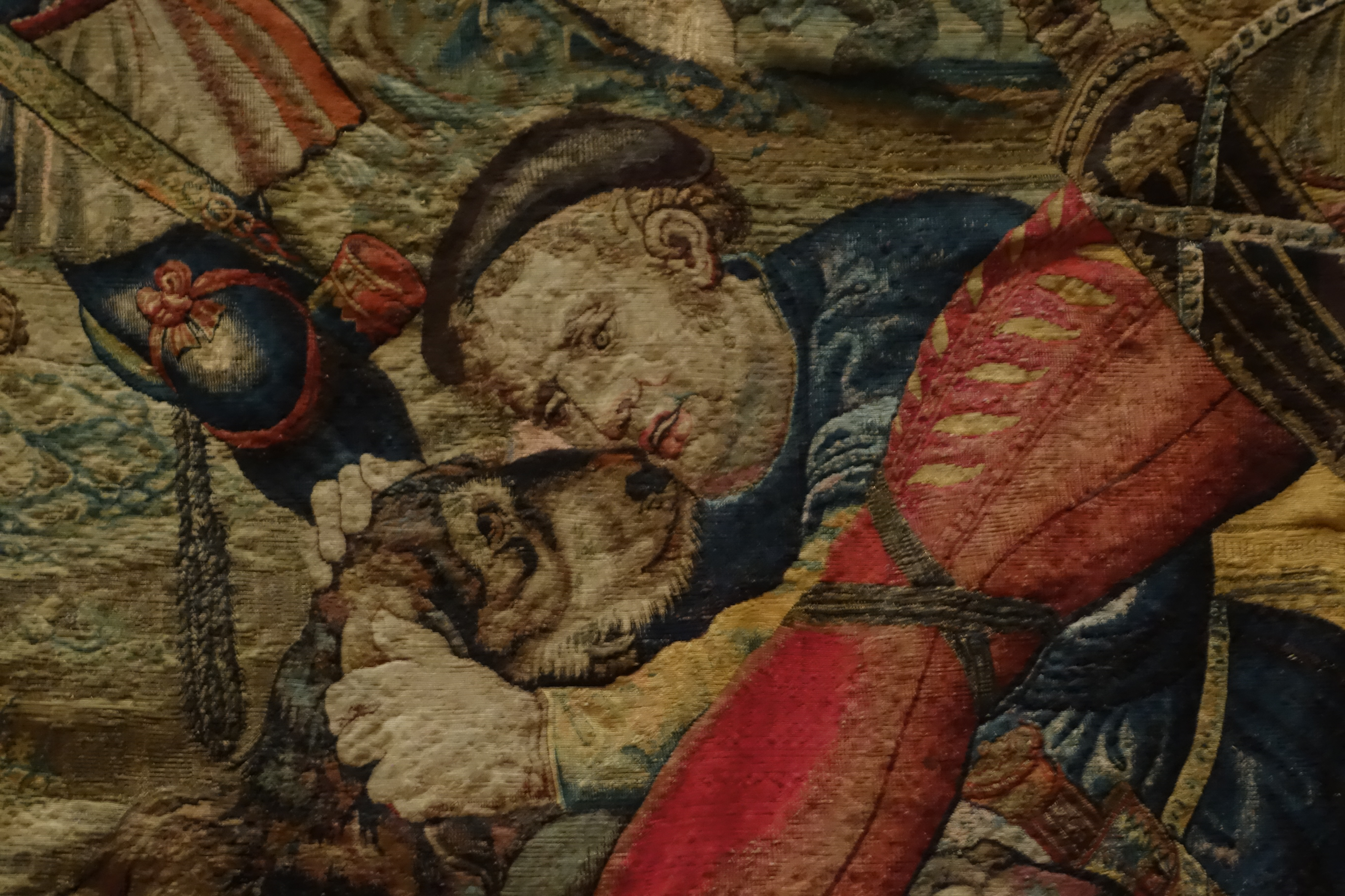 Hunt of Maximilian, Louvre